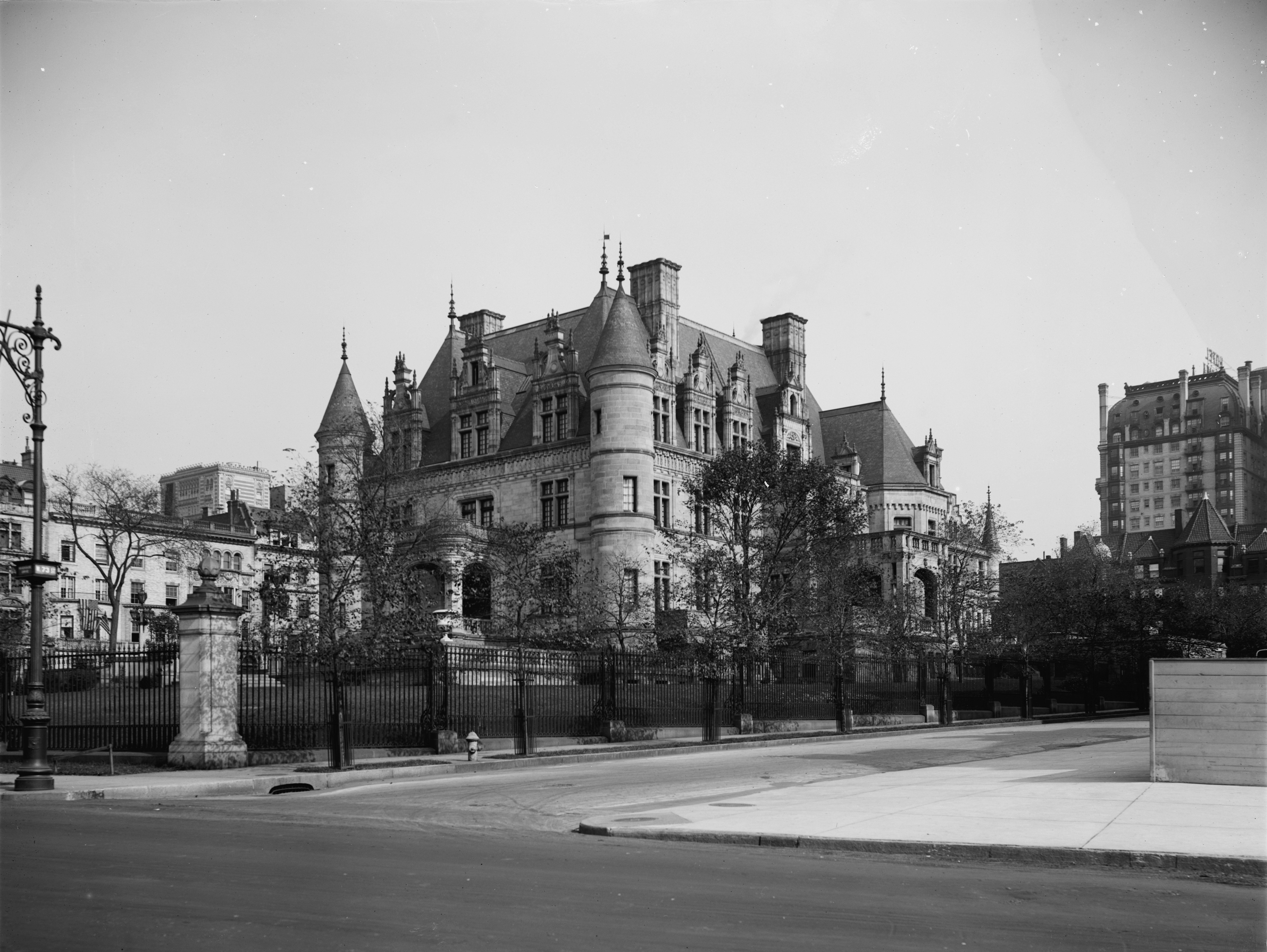 A Riverside Drive residence, New York, C.M. Schwab residence